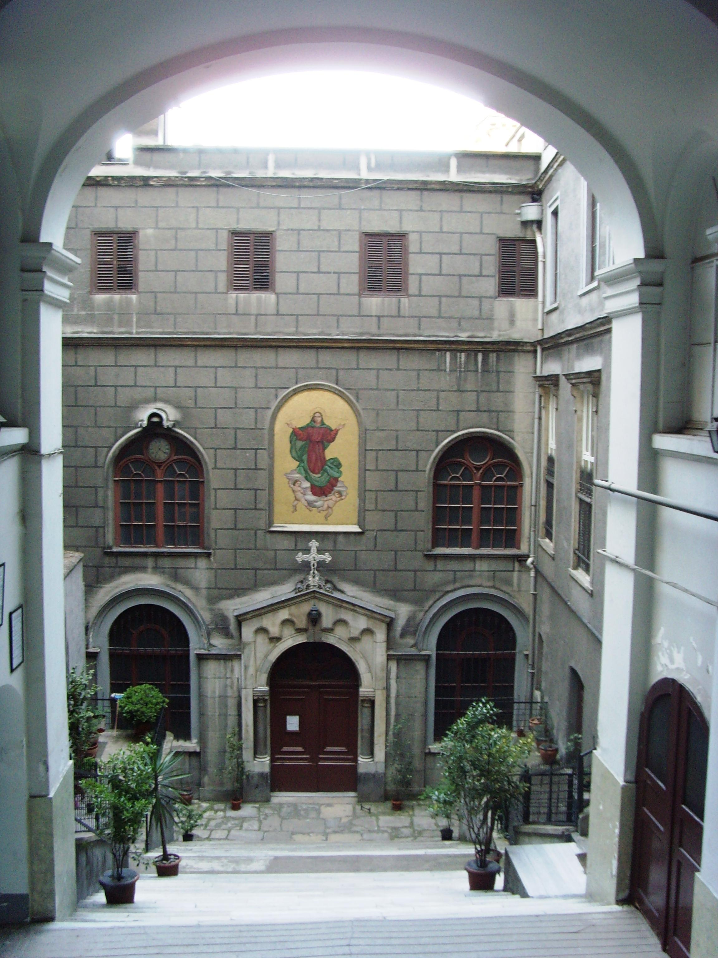 Santa Maria Draperis Latin Catholic Church in İstanbul